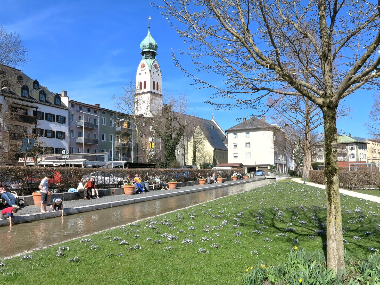 Park "Riedergarten"